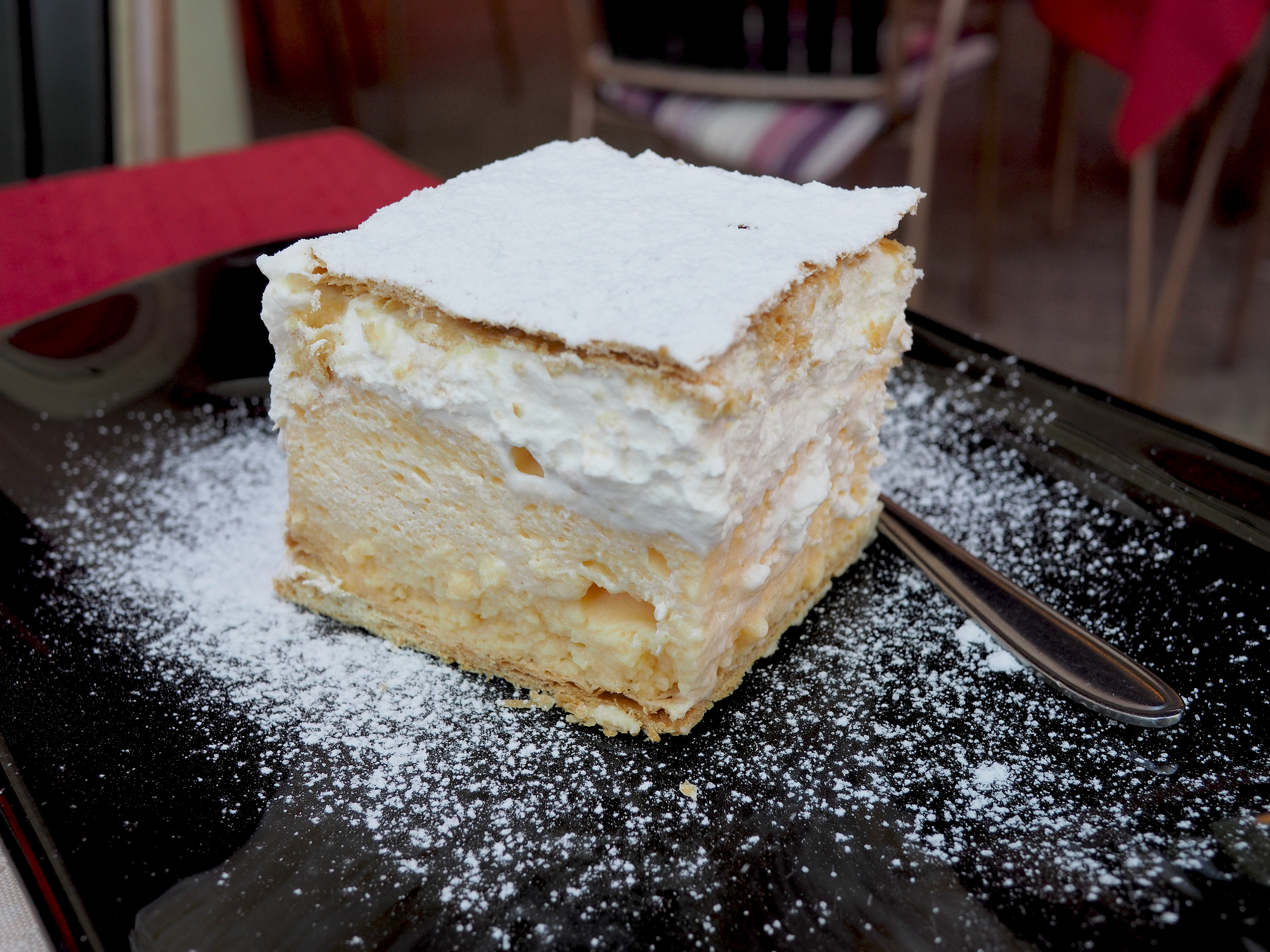 Bled cremschnitte at Bled lake, Slovenia.